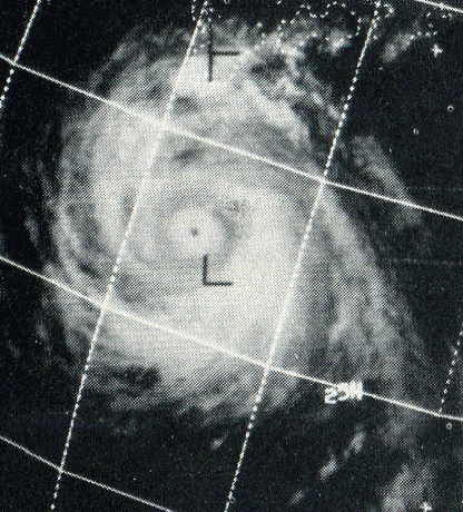 This ESSA 9 weather satellite picture of Typhoon Trix was taken on August 28, 1971 at 0507 UTC